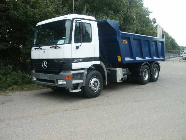 Mercedes-Benz Actros tipper Summary Created by Michael van Gils.